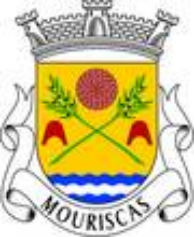 Coat of arms of Mouriscas